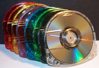 Multimedia Recovery's multi colored UMD replacement casings.